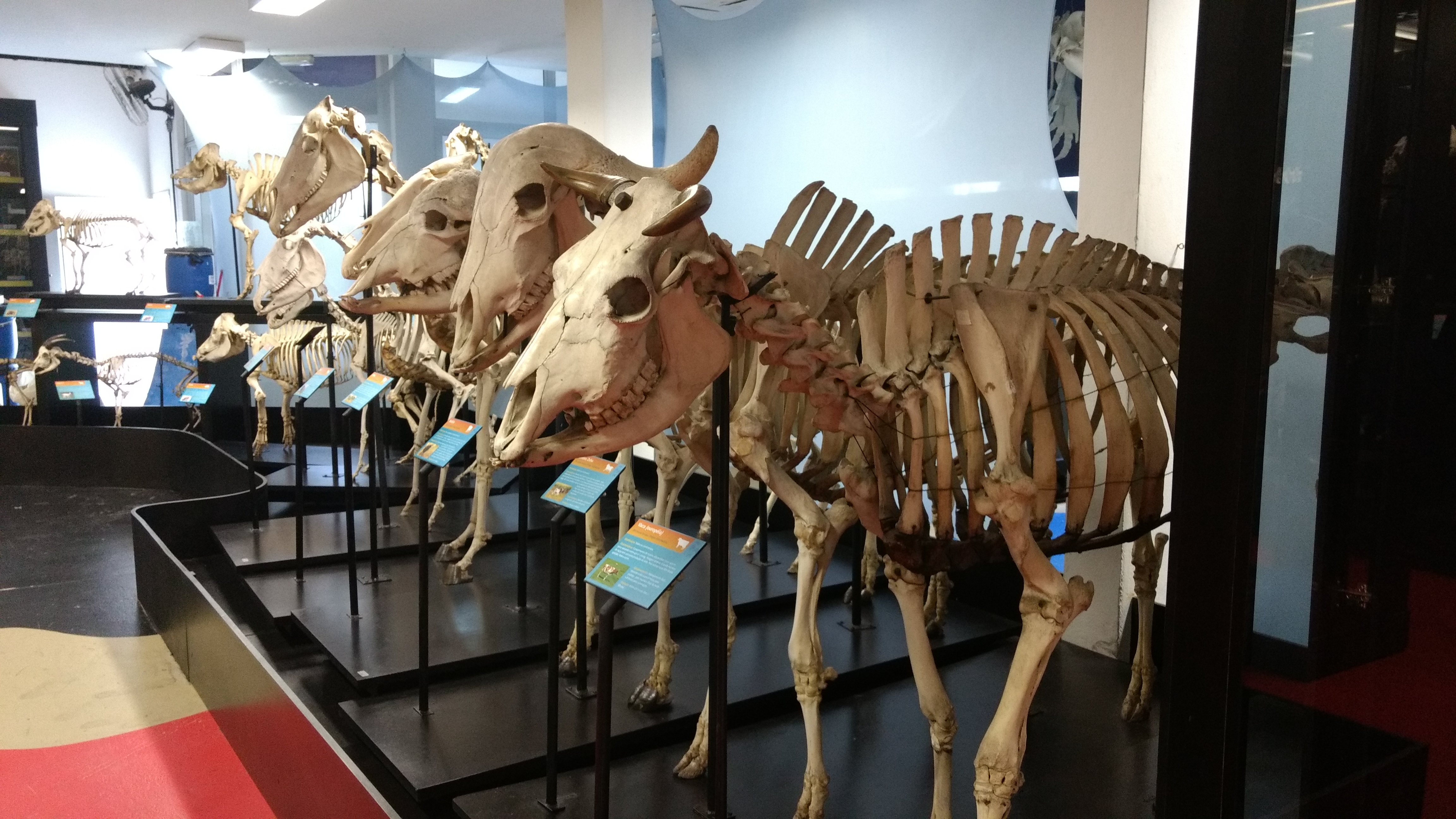 Museum of Veterinary Anatomy of the School of Veterinary Medicine and Animal Science collection.